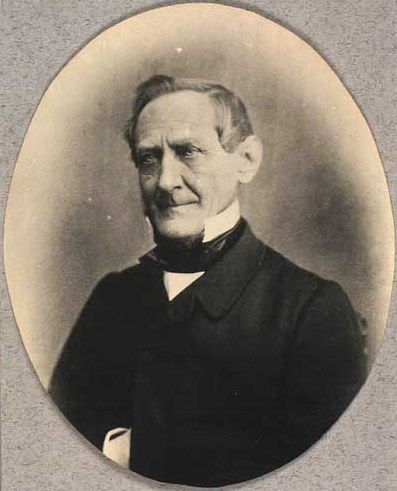 Andreas Paul Adolph Harbou (1809-1877), German politician